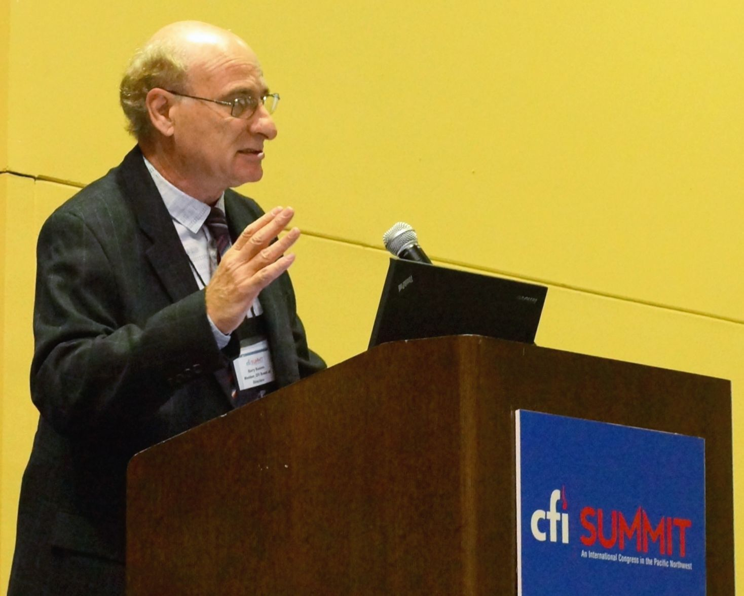 Barry Kosmin speaking at the CFI Summit in Tacoma, Washington, October 25, 2013.